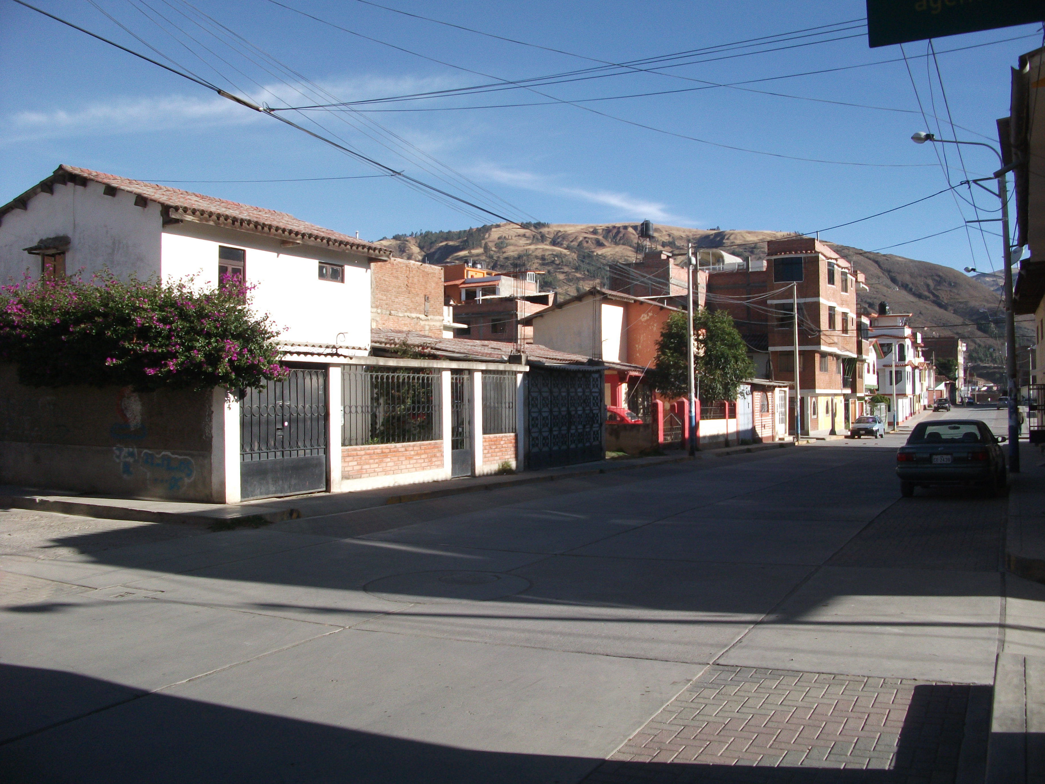 Urbanizacion Huarupampa Huaraz